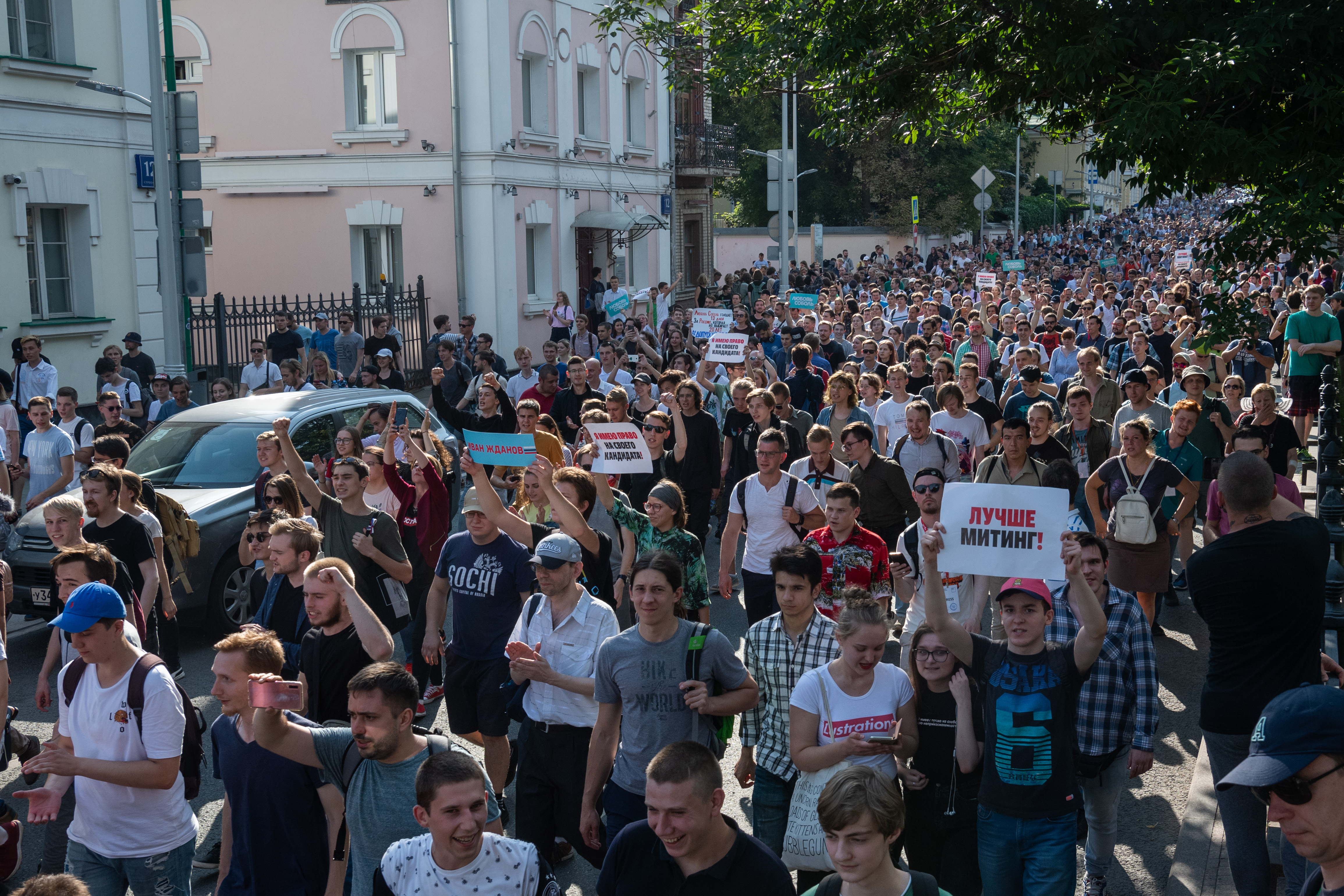 Rally in support of opposition candidates for deputies of the Moscow City Duma.